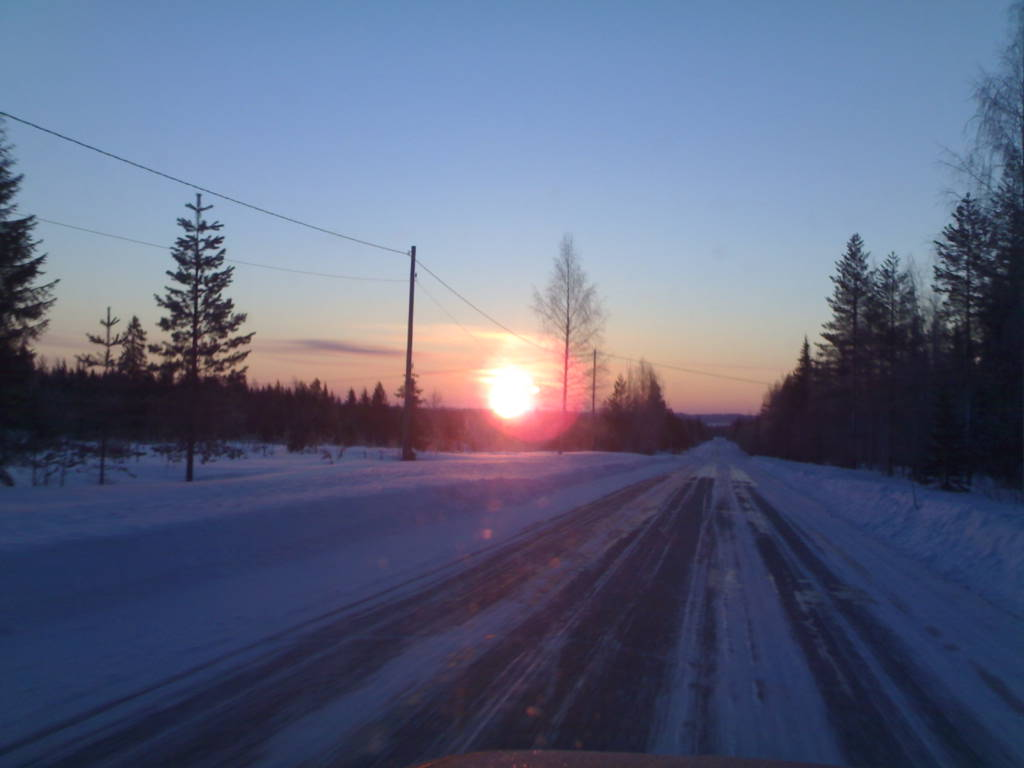 An early morning shot from Uutelanvaara, Pesiökylä, Suomussalmi, Finland. Photo taken from Joukokyläntie in 25.3.2008.